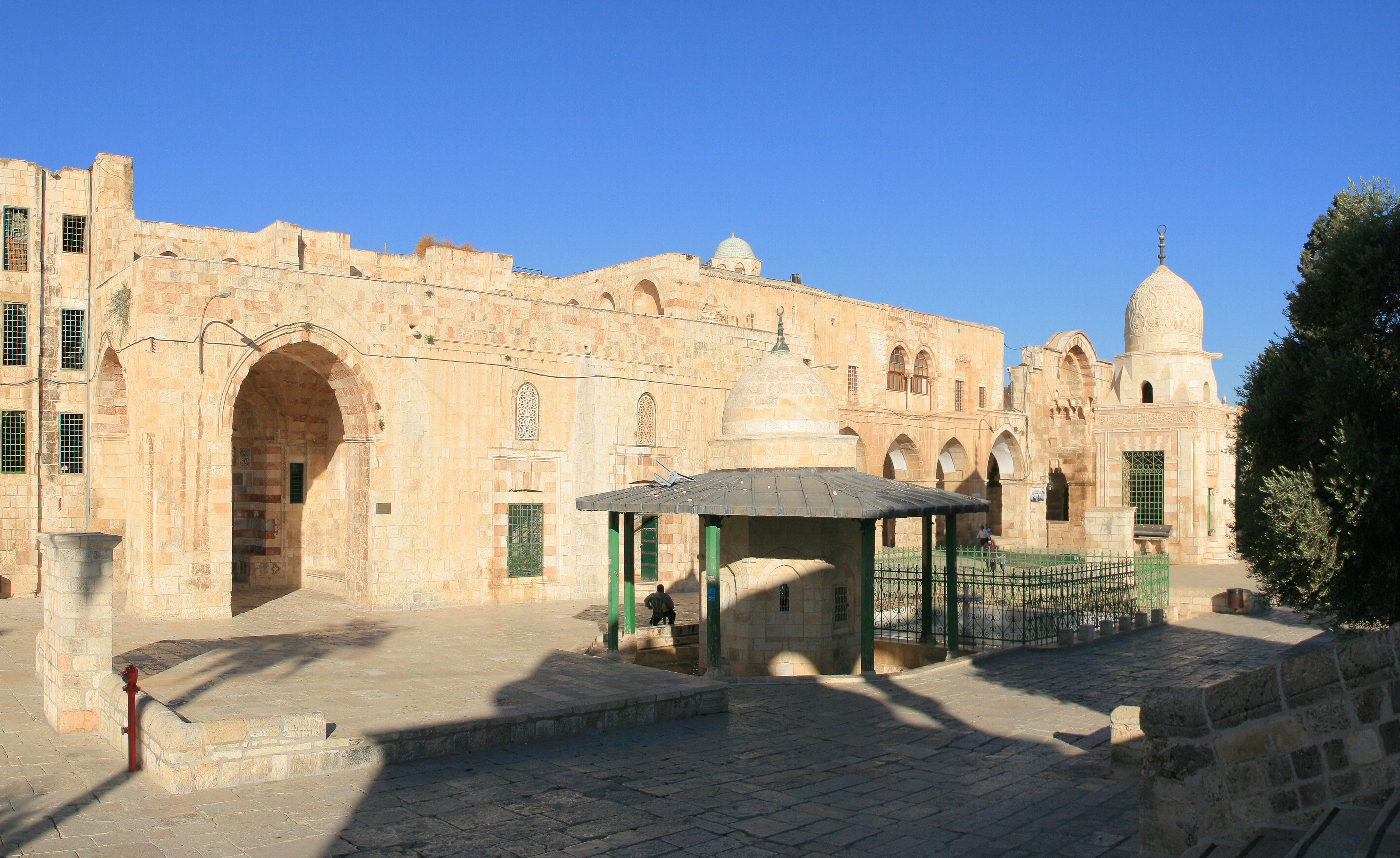 Madrasa al-Ashrafiyya, Temple Mount, Jerusalem, Israel